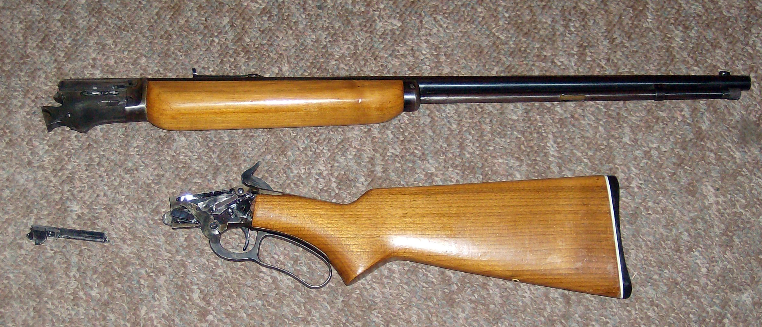 A Marlin 39A lever action .22LR rifle. This example dates from 1944 and does not have the safety switch or golden trigger seen on the current Golden 39A. The rifle is designed to split into two sections to allow the barrel to be cleaned from the breech end. One needs only loosen a knurled screw and pull back slightly on the hammer to remove the action from the barrel. The small piece at the bottom left is the bolt, containing the firing pin.